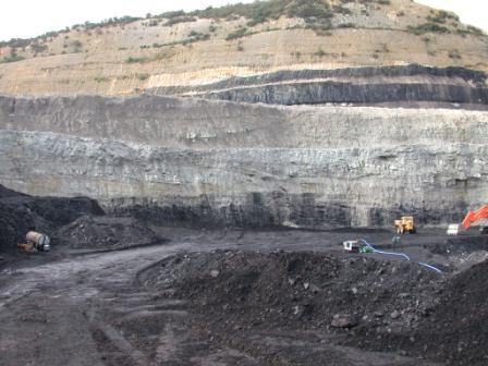 Uncovered Coal Seams, showing an open cast mine, Kai Point Coal Mine, New Zealand